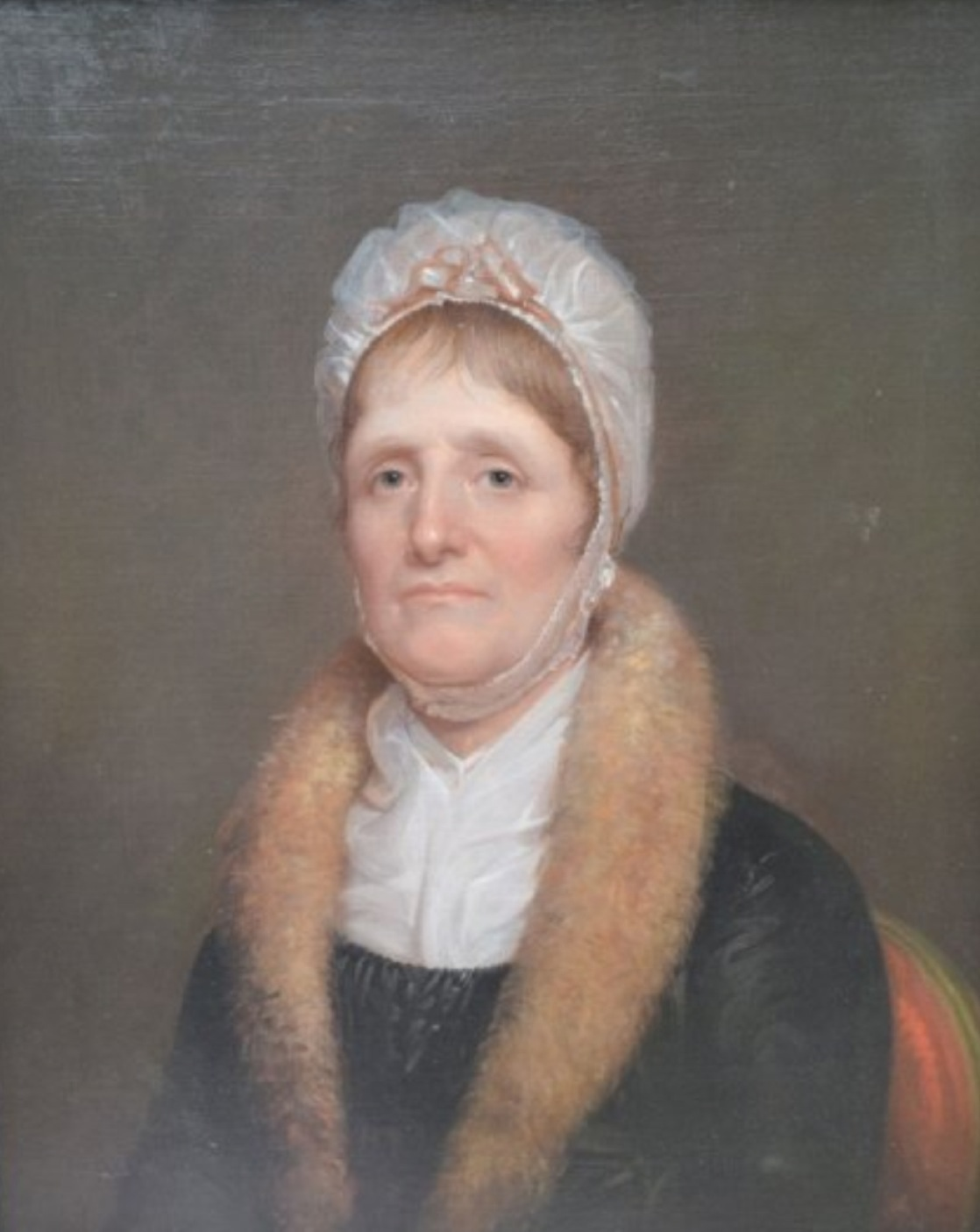 This is a public domain picture of the portrait of Margaret Irvine Miller by Rembrandt Peale, 1805 to be added to